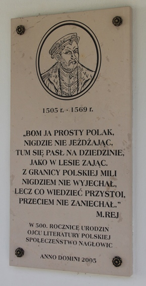 Tablica ufundowana na 500 lecie urodzin Mikołaja Reja przez społeczeństwo Nagłowic